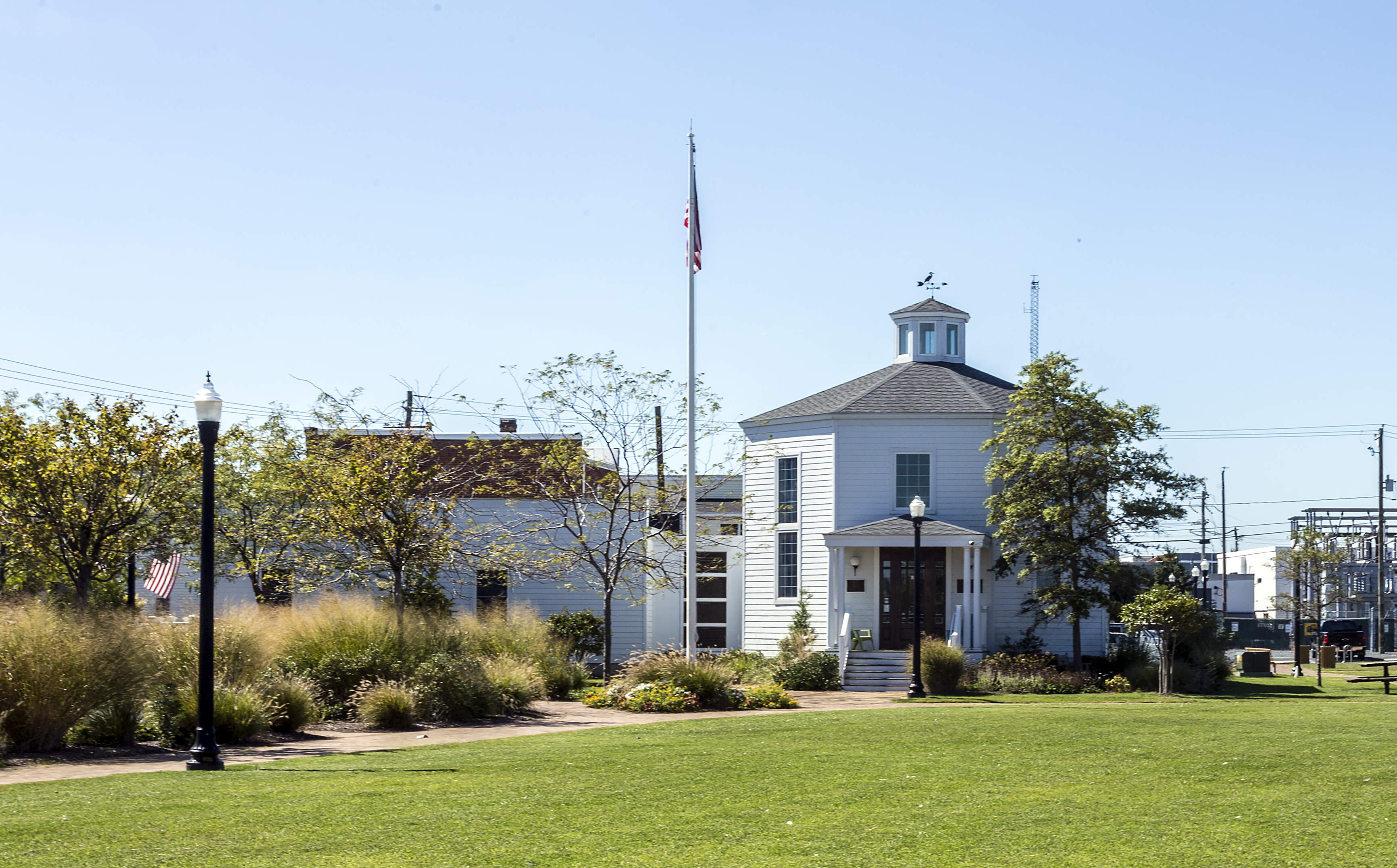 The 2010 addition and new main entrance to the Chincoteague Library from Waterfront Park, Chincoteague, Virginia, USA